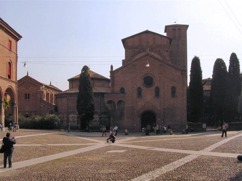 Buildings of Saint Stephen's Basilica in Bologna, Italy, also known as "The Seven Churches", in Piazza santo Stefano square. In this picture, the facade of the "Chiesa del Crocifisso" (Church of the Crucifix). At left, the Basilica del Santo Sepolcro and the Basilica dei santi Vitale e Agricola. Picture by Paolo Carboni.